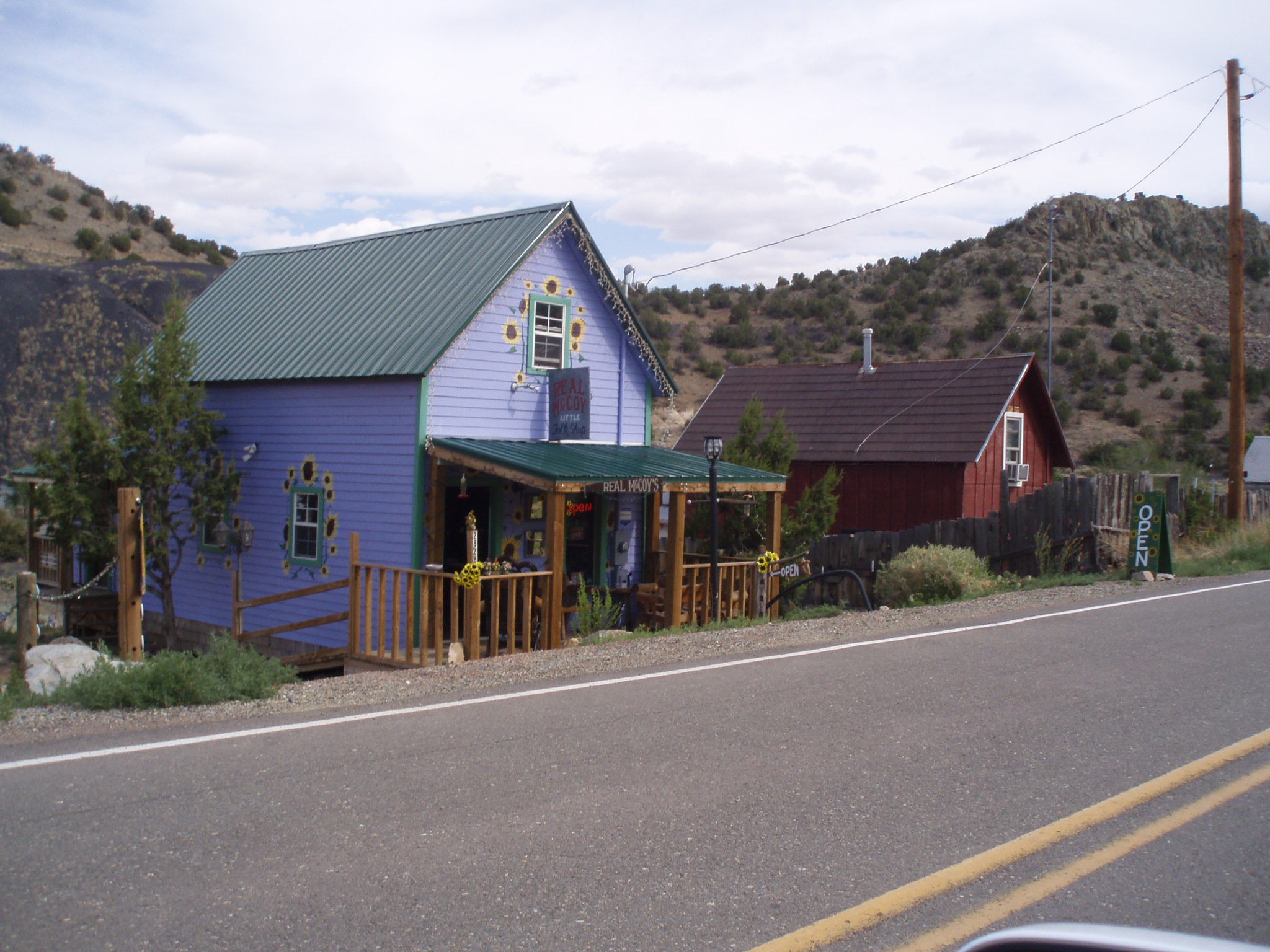 Most of the shops were originally the coal miner's homes that were abandoned. When I was young, I came out here with my parents, so that my mom (who was an artist) could draw some of the old abandoned houses. It looks totally different now.